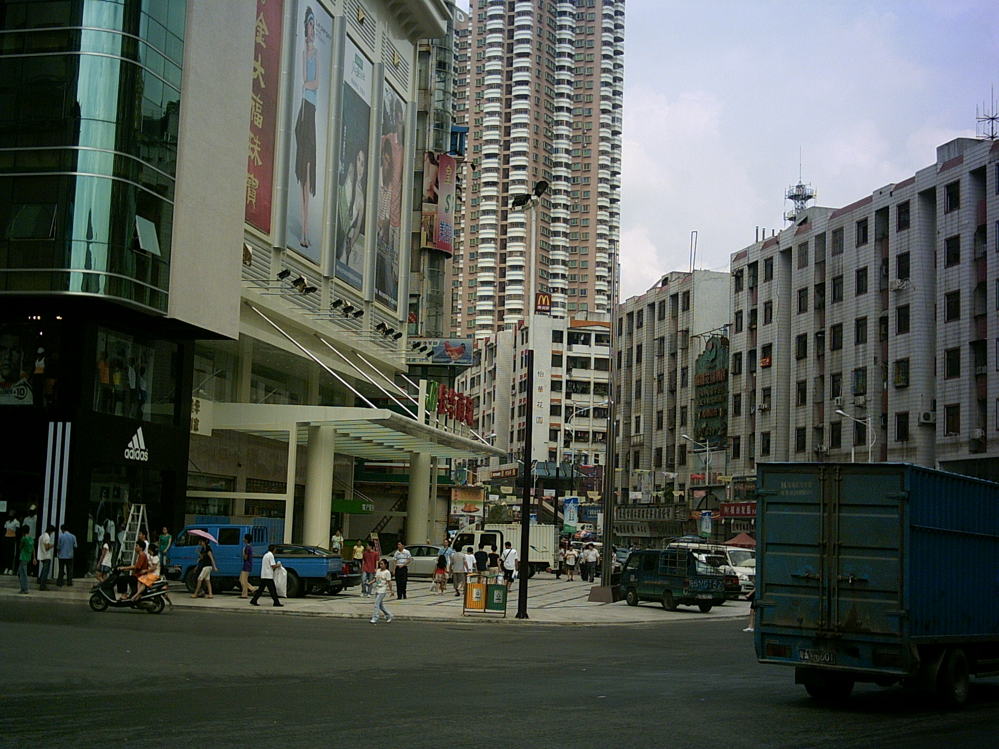 Town centre of Zhangmutou, Dongguan. Taken by myself in August, 2006.